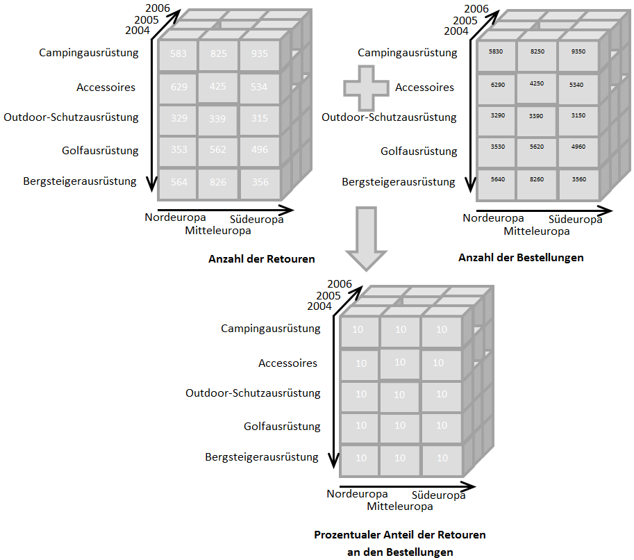 Online Analytical Processing (OLAP) Operation called "drill-through"